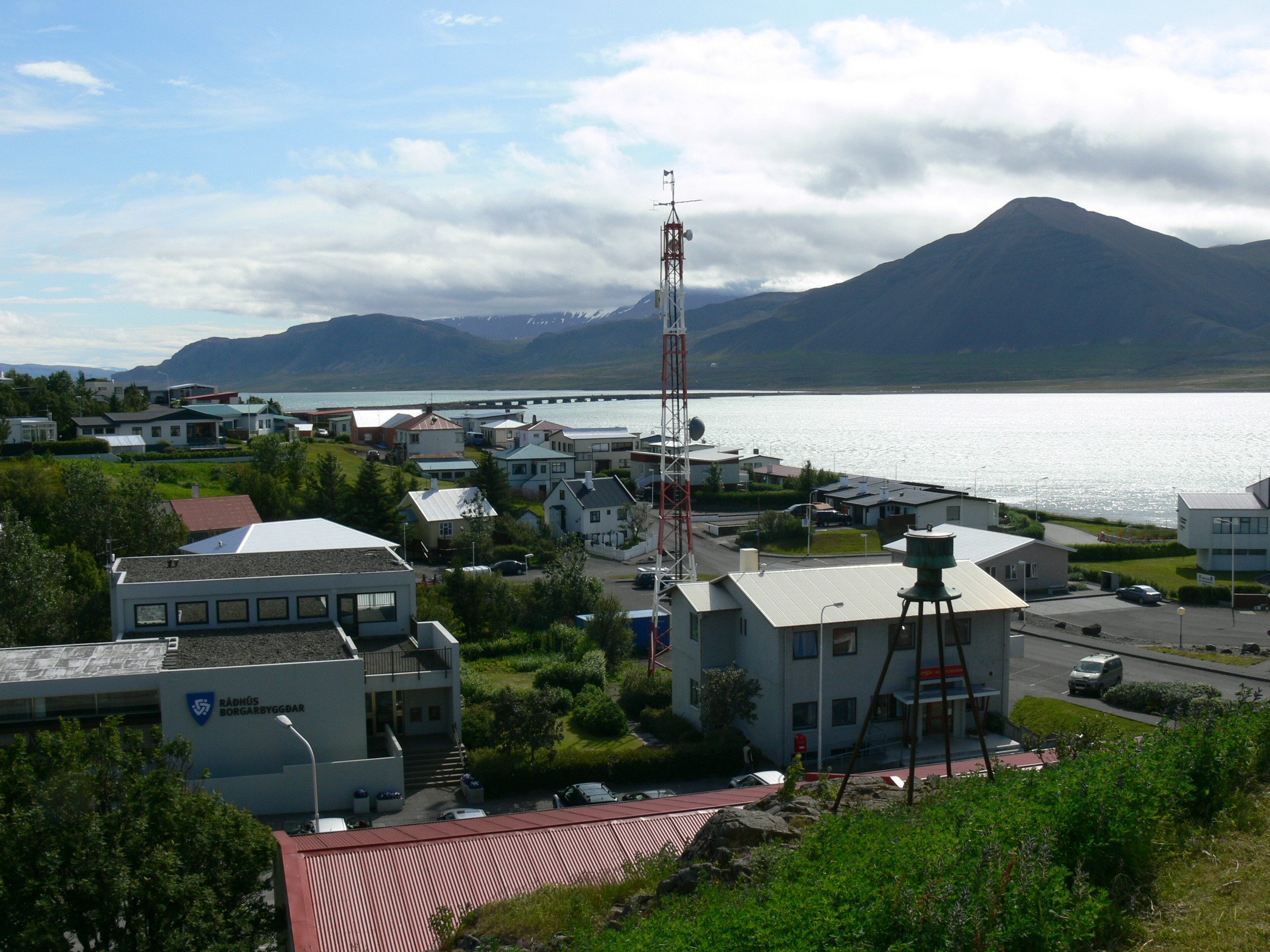 Borgarnes. View from the church hill over the city.